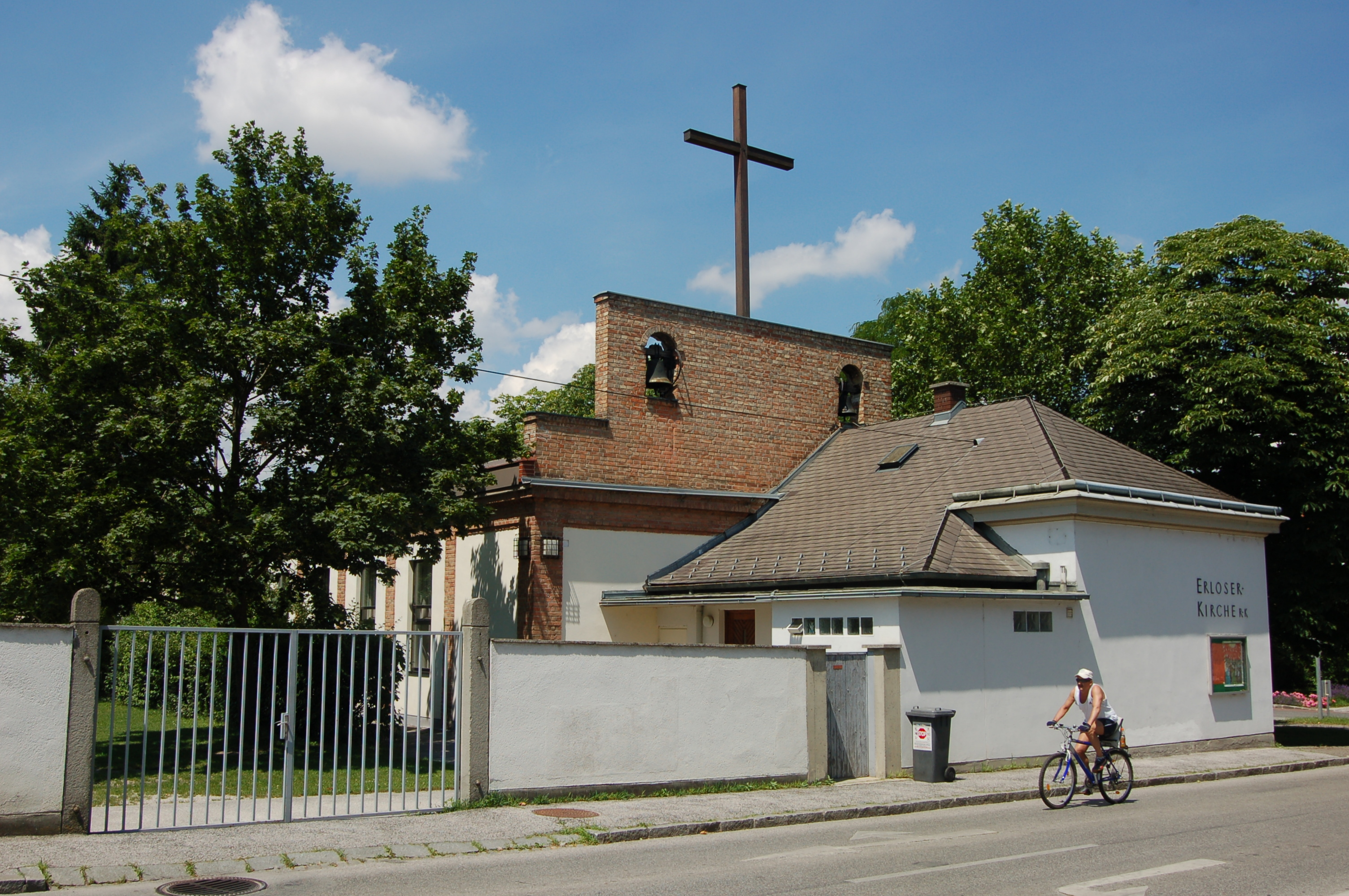 Erlöserkirche (Redeemer church) in Wiener Neustadt, Lower Austria; view from Dachsteingasse